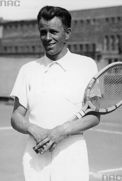 Hebda